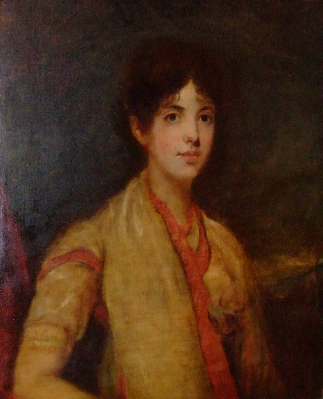 Charlotte Mary Hood, Baroness Bridport, 3rd Duchess of Bronté (née Nelson; 20 September 1787 – 29 January 1873)